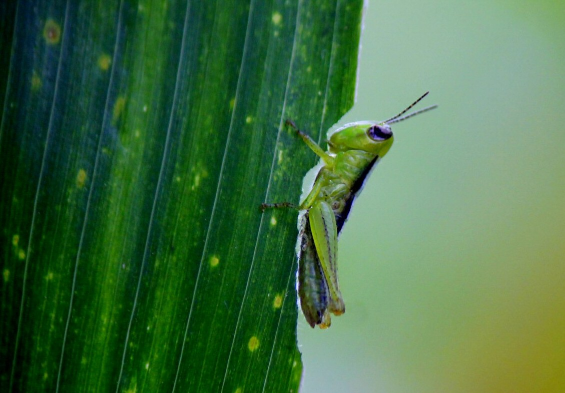 The green grasshopper is common in nepal. They feed on the green leaves of the grasses and crops.